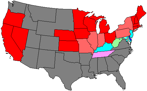 Summary of party control of U.S. house seats in the 39th United States Congress following election. Stripes indicate a tie between two or more parties. Legend: 80.1-100% Democratic seat majority 60.1-80% Democratic seat majority 60% or less Democratic seat plurality 60% or less Republican seat plurality 60.1-80% Republican seat majority 80.1-100% Republican seat majority 60% or less Unconditional Unionist seat plurality 60.1-80% Unconditional Unionist seat majority 80.1-100% Unconditional Unionist seat majority 60% or less Unionist seat plurality 60.1-80% Unionist seat majority 80.1-100% Unionist seat majority